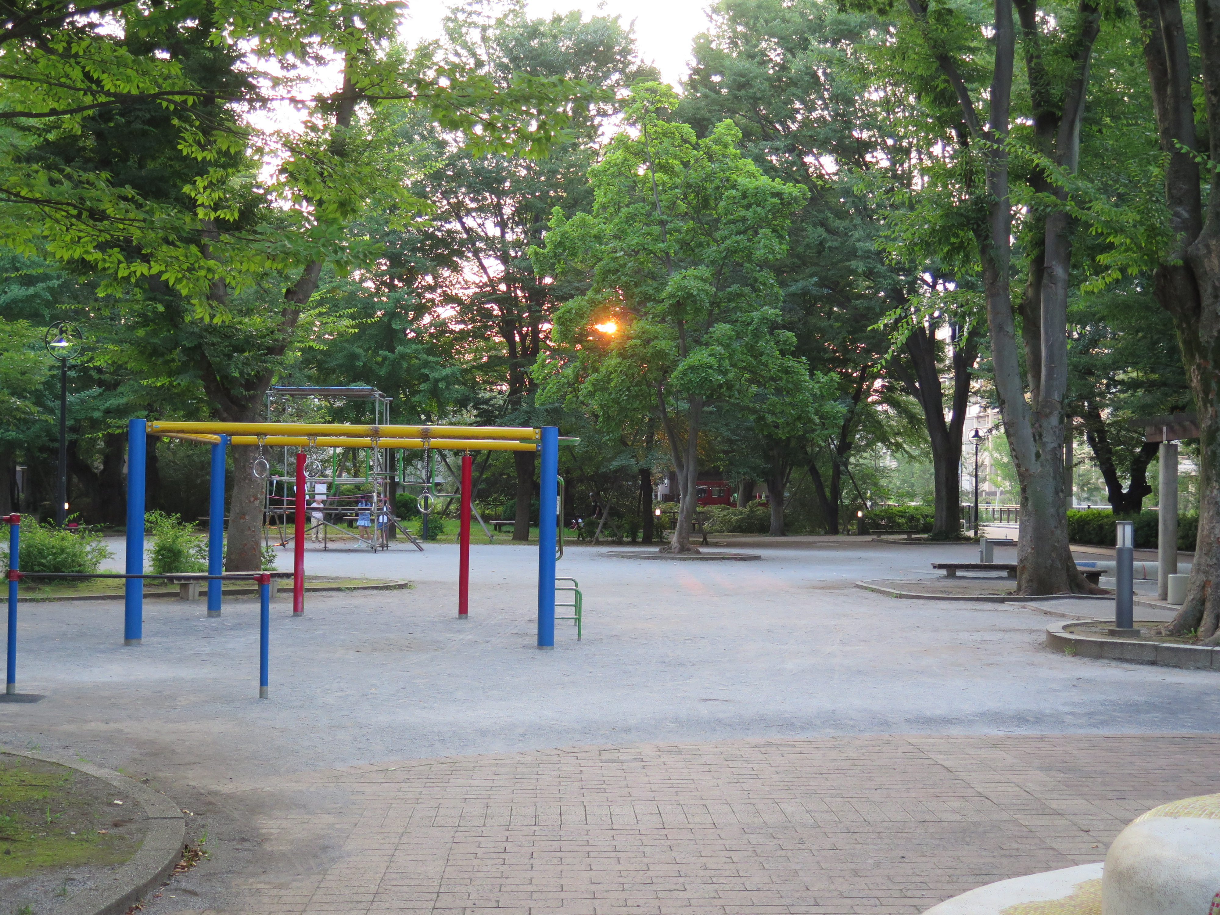 Sakurazutsumi Apartments Central Park. Sakurazutsumi, Musashino, Tokyo, Japan.